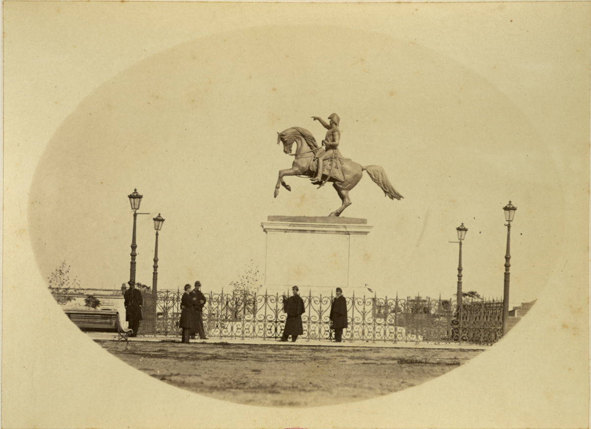 Equestrian statue of General José de San Martín in the homonymous park sited in Retiro, Buenos Aires, Argentina.